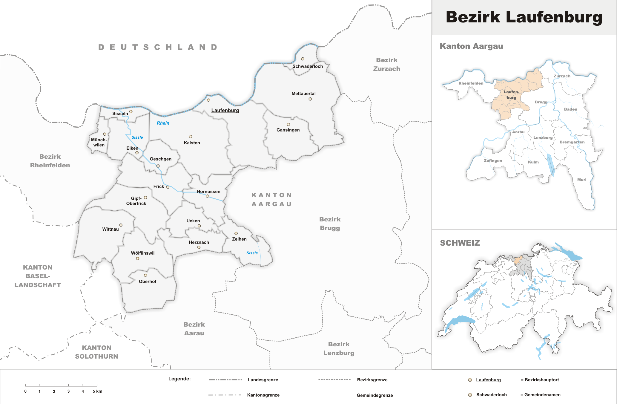 Municipalities in the district of Laufenburg